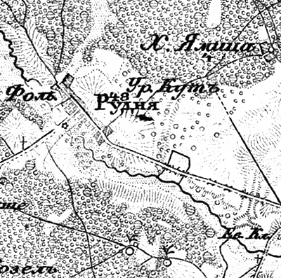 Pidlisne (Rudnia) on the map "Военно-топографическая карта Российской Империи" (known as "Schubert's map"), XX 5, 1866-1887 (issued in 1913).